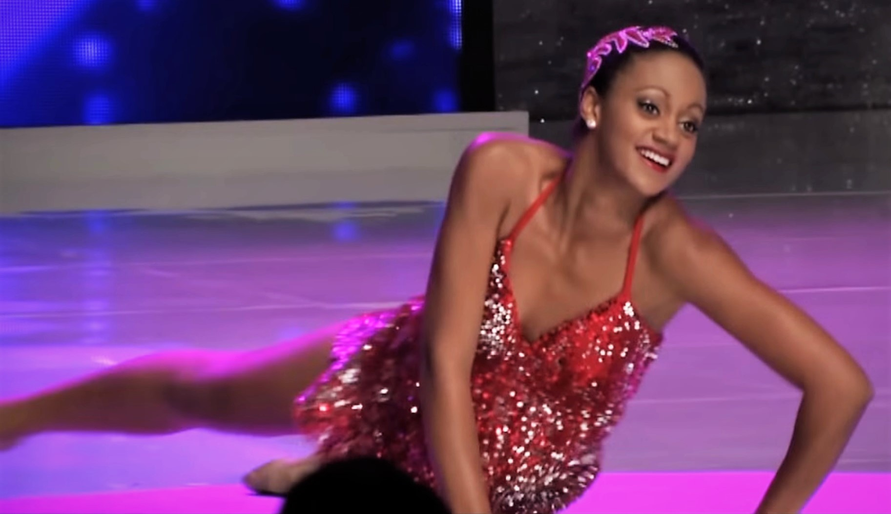 Camille Munro 2013 Miss World Canada dancing Miss World 2013 TALENT COMPETITION Bali, Sunday 22nd of September